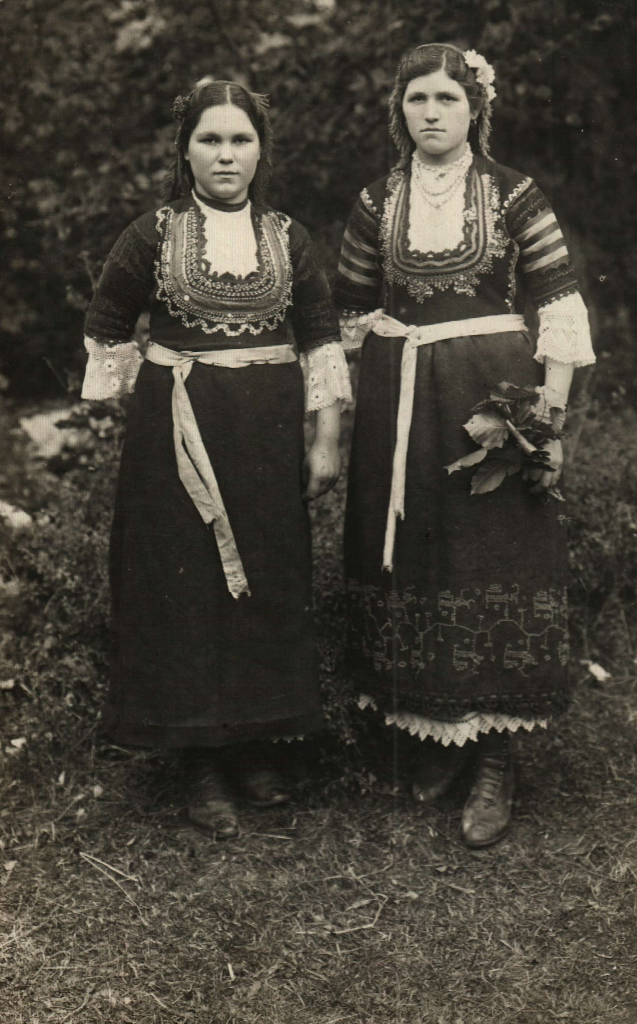 National costume of Bulgaria. Samokov